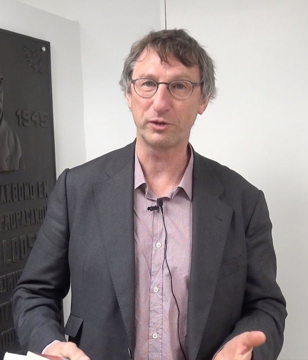 Writer from Belgium